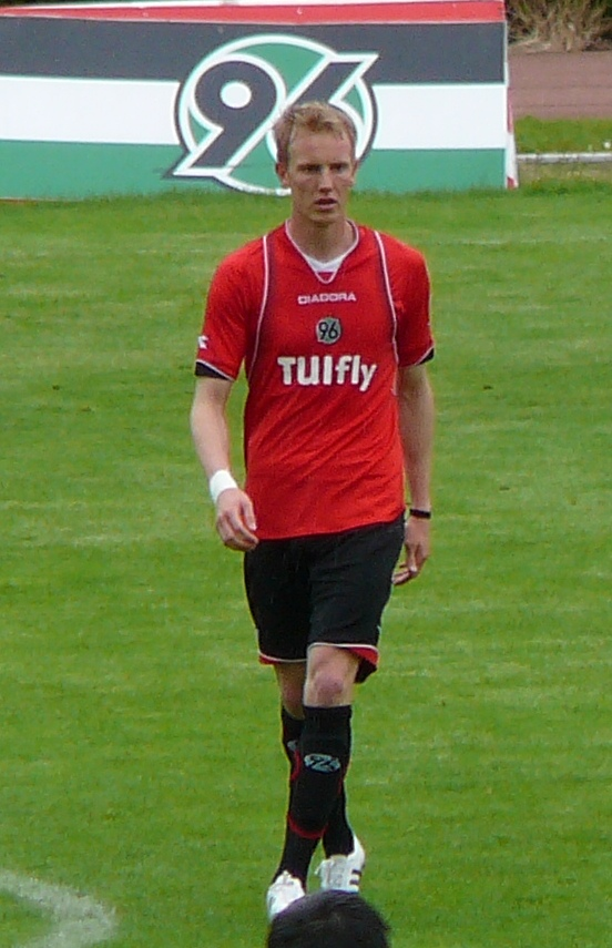 Jan Rosenthal